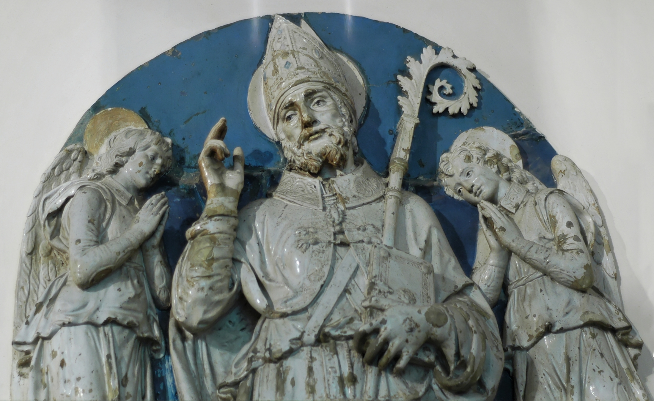 St. Zenobius and two angels. Lunette from the bell tower of the Duomo in Florence (Italy), removed in the 18th century. Glazed terracotta.